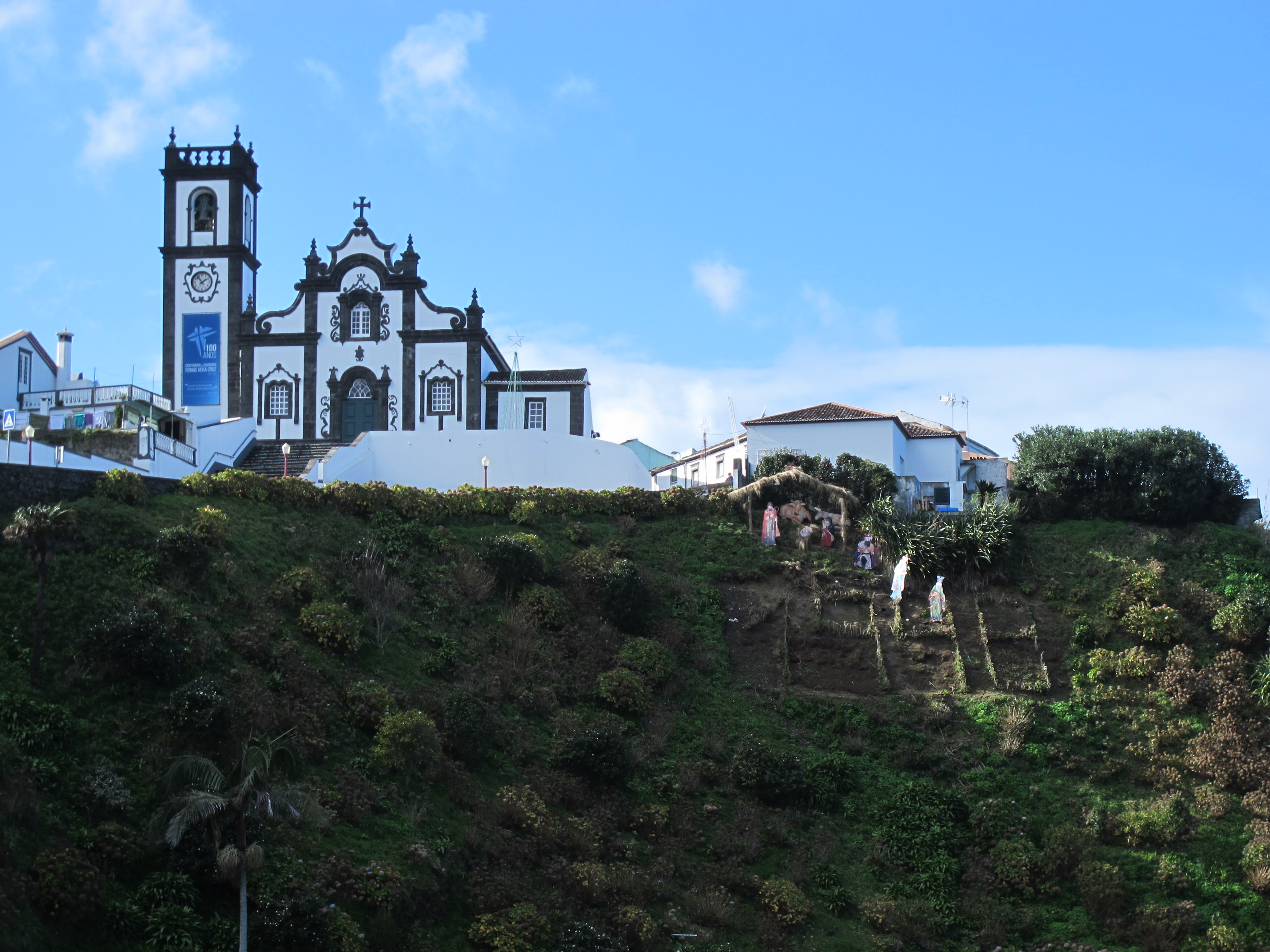 Nativity Scene on the Azores 2016, Porto Formoso